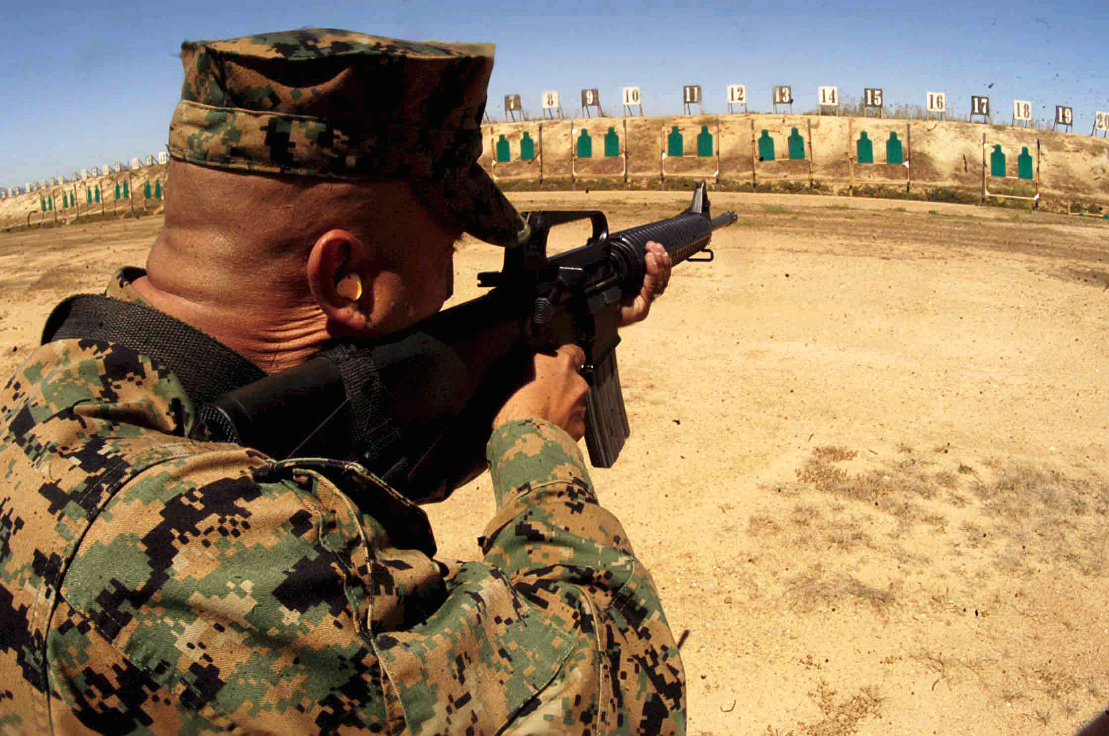 09/23/2005 New Firing Range U.S. Marine aims in during the new course of fire on Edson Range aboard Marine Corps Base Camp Pendleton, California, September 5, 2005. The new course provides an increased emphasis on combat marksmanship.